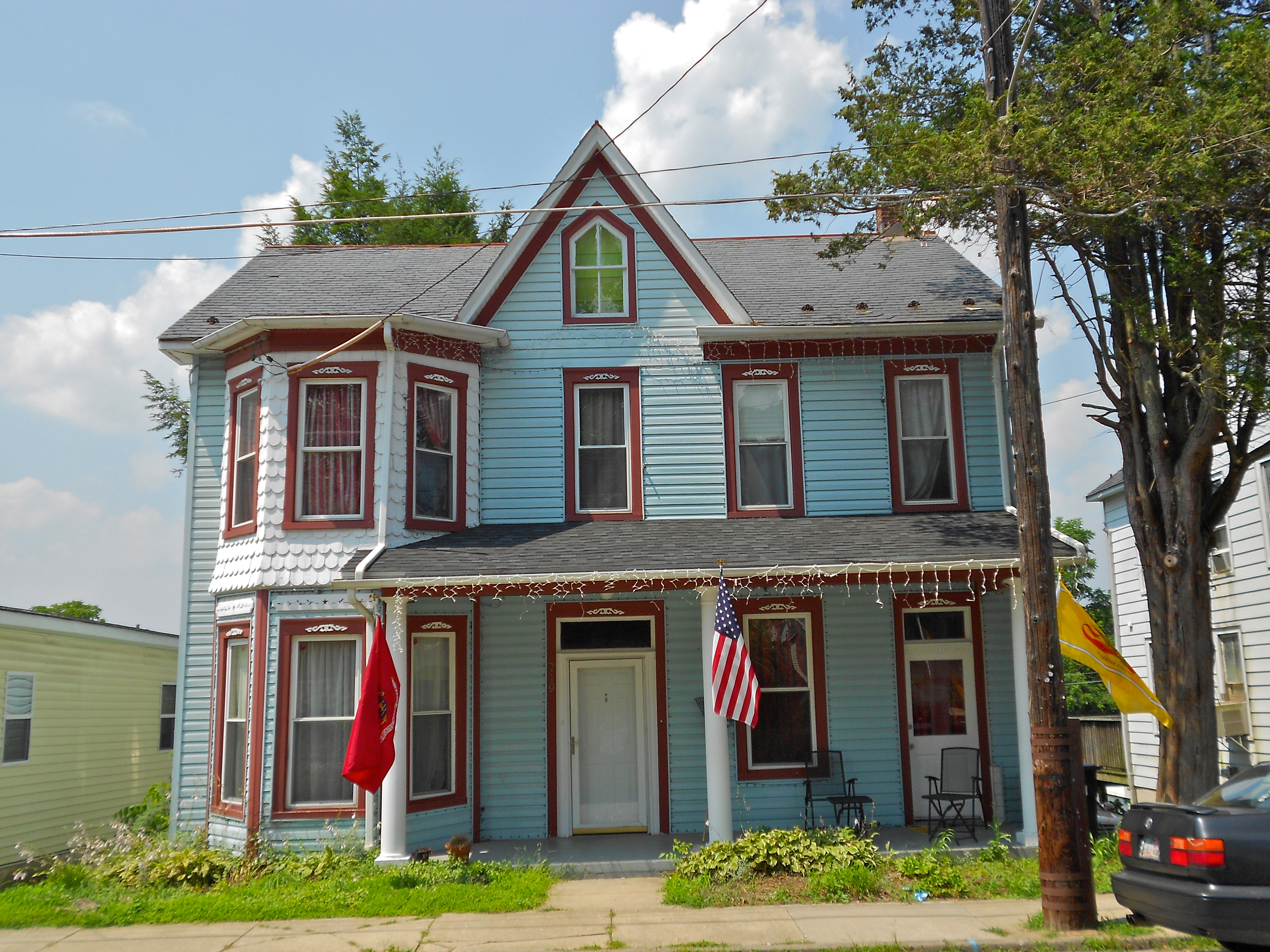 Building on Main Street in Delta, Pennsylvania (part of the Delta Historic District), which covers all of Main Street in Delta.